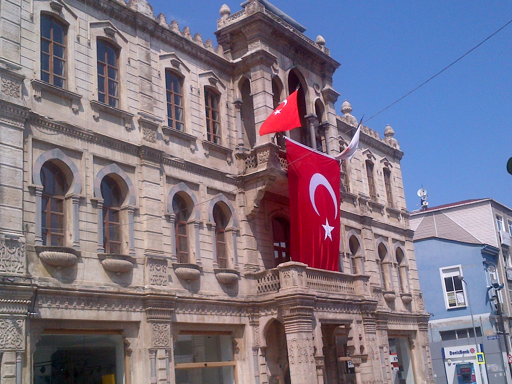 The historical Municipality building of Samsun